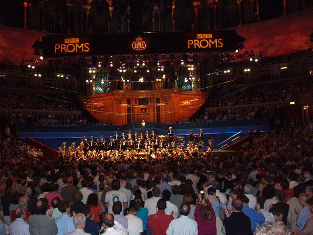 BBC Proms at the Royal Albert Hall Promenaders stand in the central arena, and in a top gallery. These and all seats were packed for this performance, Bernard Haitink conducting the Amsterdam Concertgebauw in Bruckner's 8th symphony. Photo taken during applause at the end of the concert. Visible behind the orchestra and in front of the organ is a bust of Sir Henry Wood, who started the Proms.